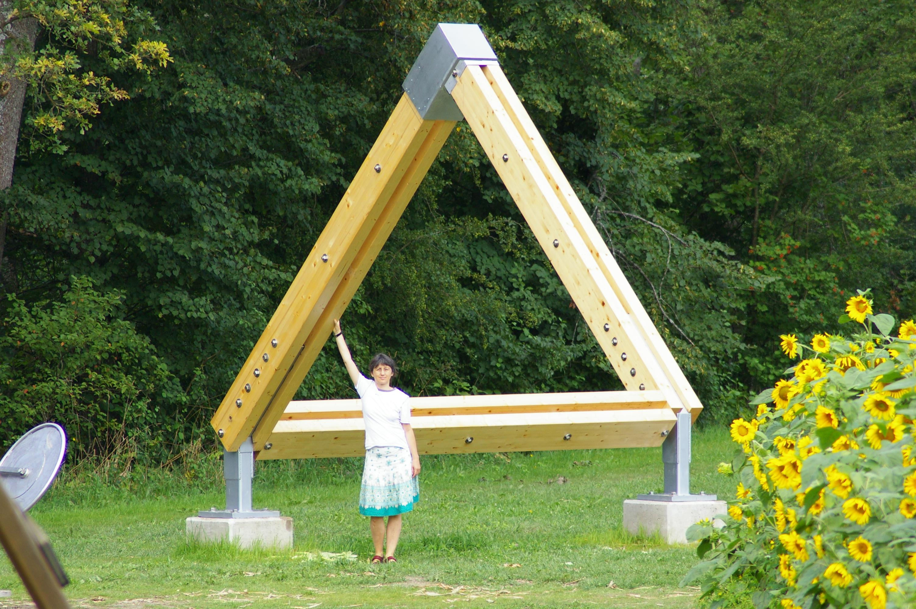 A 4 meter high sculpture "Penrose-Triangle", built by the association "Treffpunkt Physik", in Gotschuchen, St. Margareten im Rosental. It depicts an optical illusion called a Penrose triangle. The sculpture itself is an optical illusion; the three beams do not actually meet at the top joint. Only from one viewing angle, where the camera is located, do the beams appear to meet.